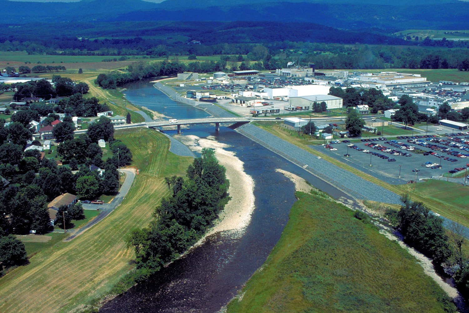 Aerial view of the business section of Moorefield, West Virginia, USA. The South Fork South Branch of the Potomac River runs through the town.A bridge carrying U.S. Route 220 crosses the river. The U.S. Army Corps of Engineers has constructed levees and floodwalls along the river banks to protect the town. The view is downriver to the northwest.